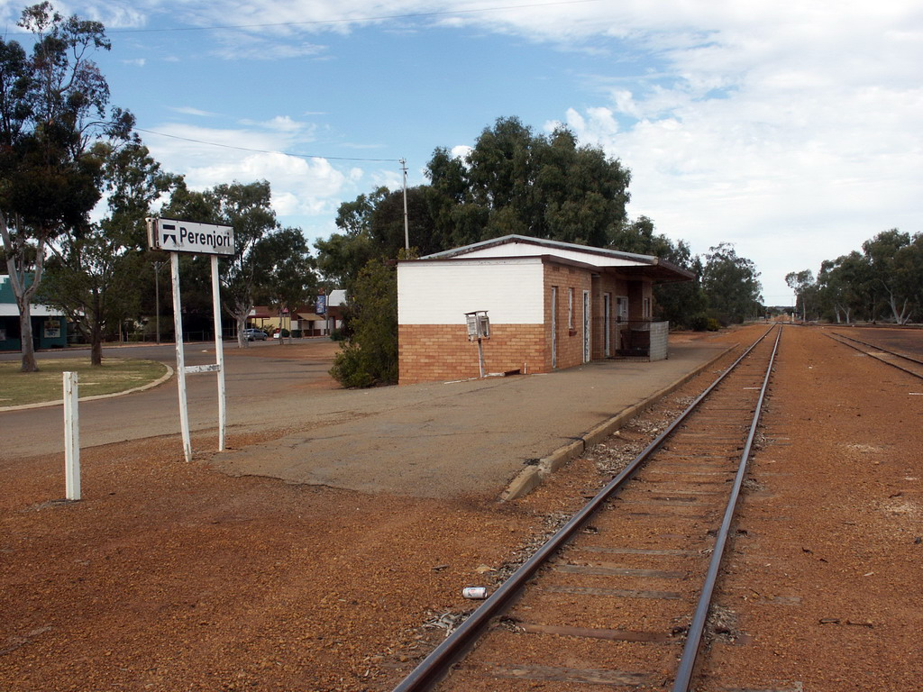 Perenjori, Western Australia.